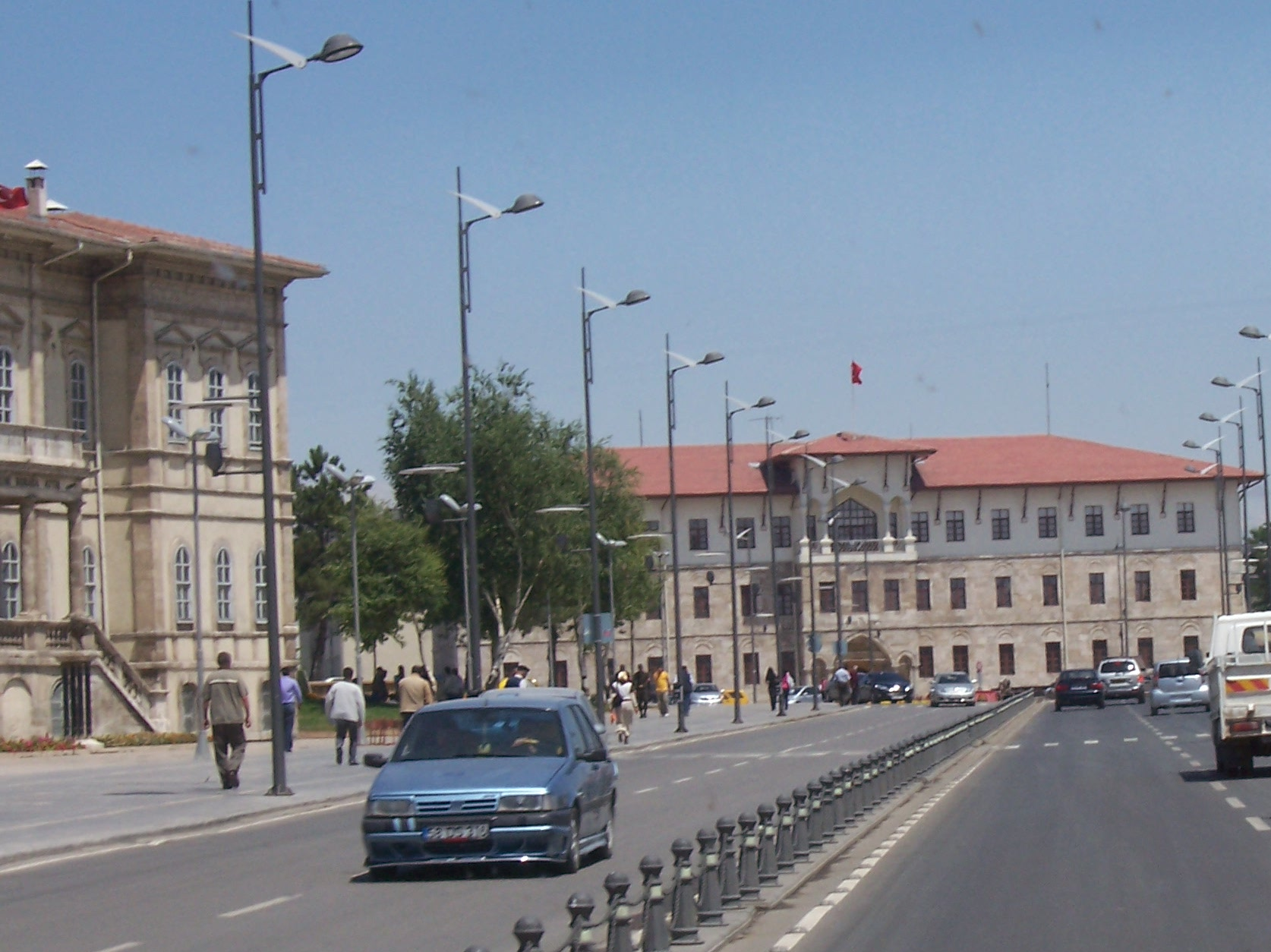 Street in Sivas, Turkey. Governor's Mansion in the middle.